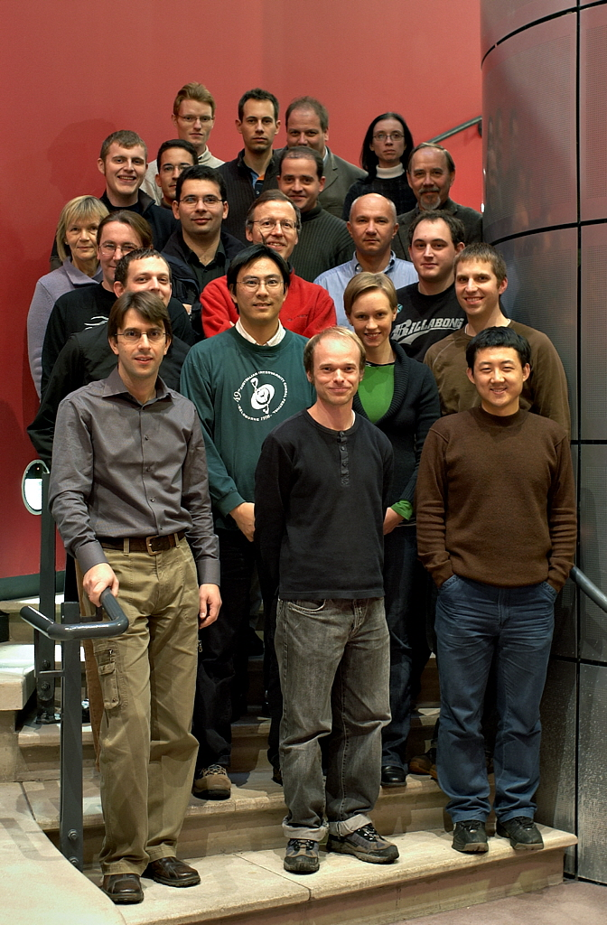 Group photo of the members of the Centre for Quantum Computation in 2006.